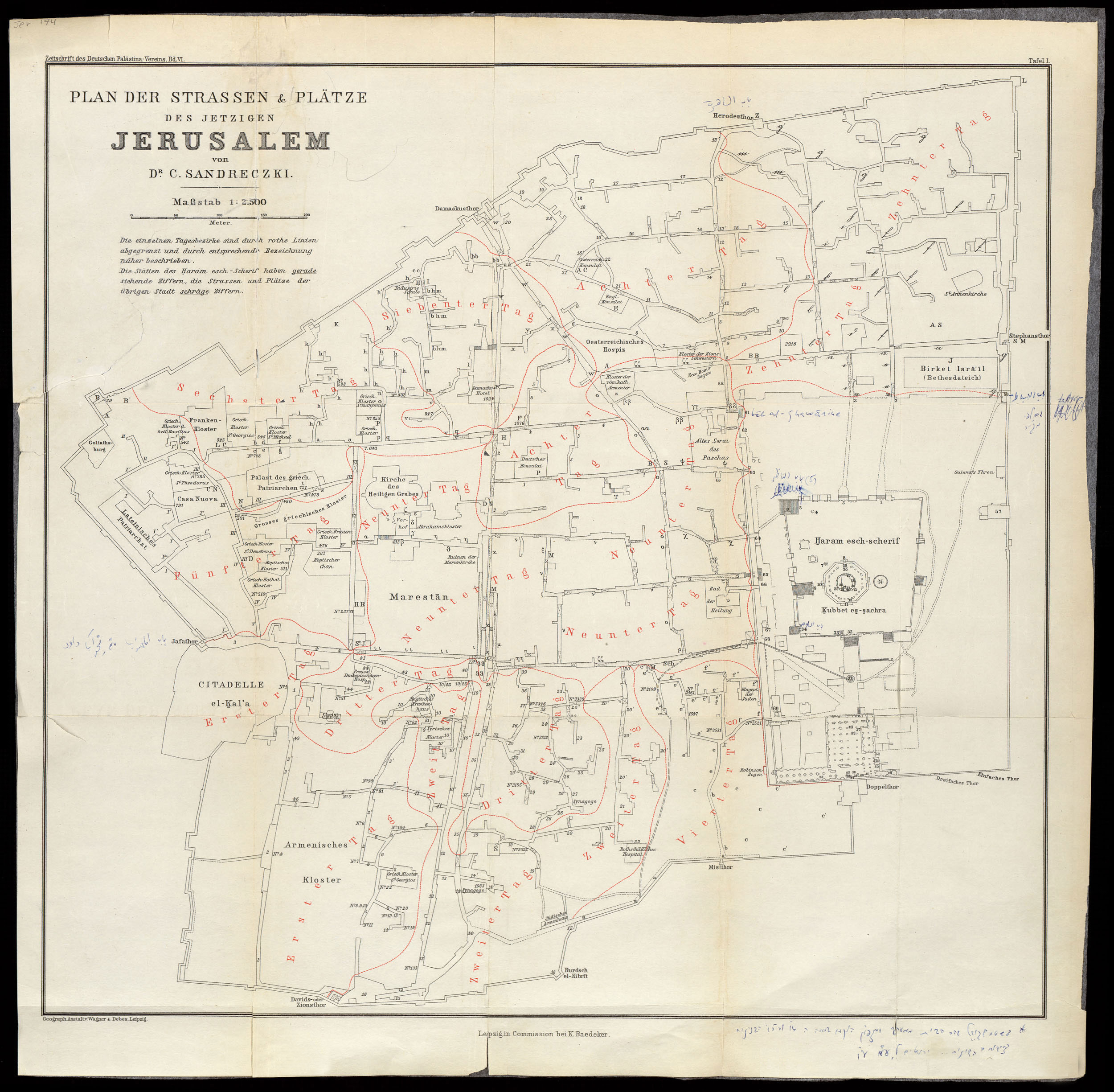 Measurment map of Jerusalem by Sandreczki. Published in Leipzig in the 19th century.